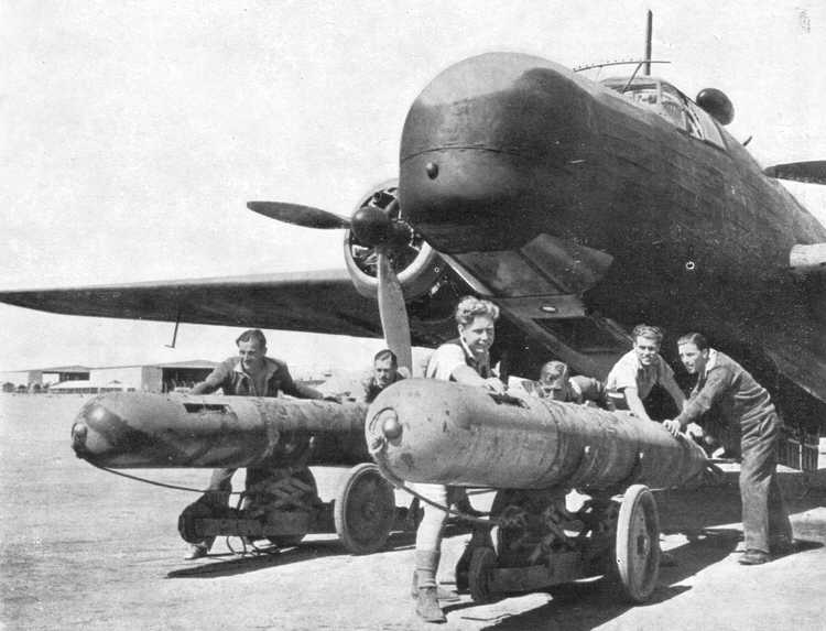 Torpedos ready for loading aboard a Wellington